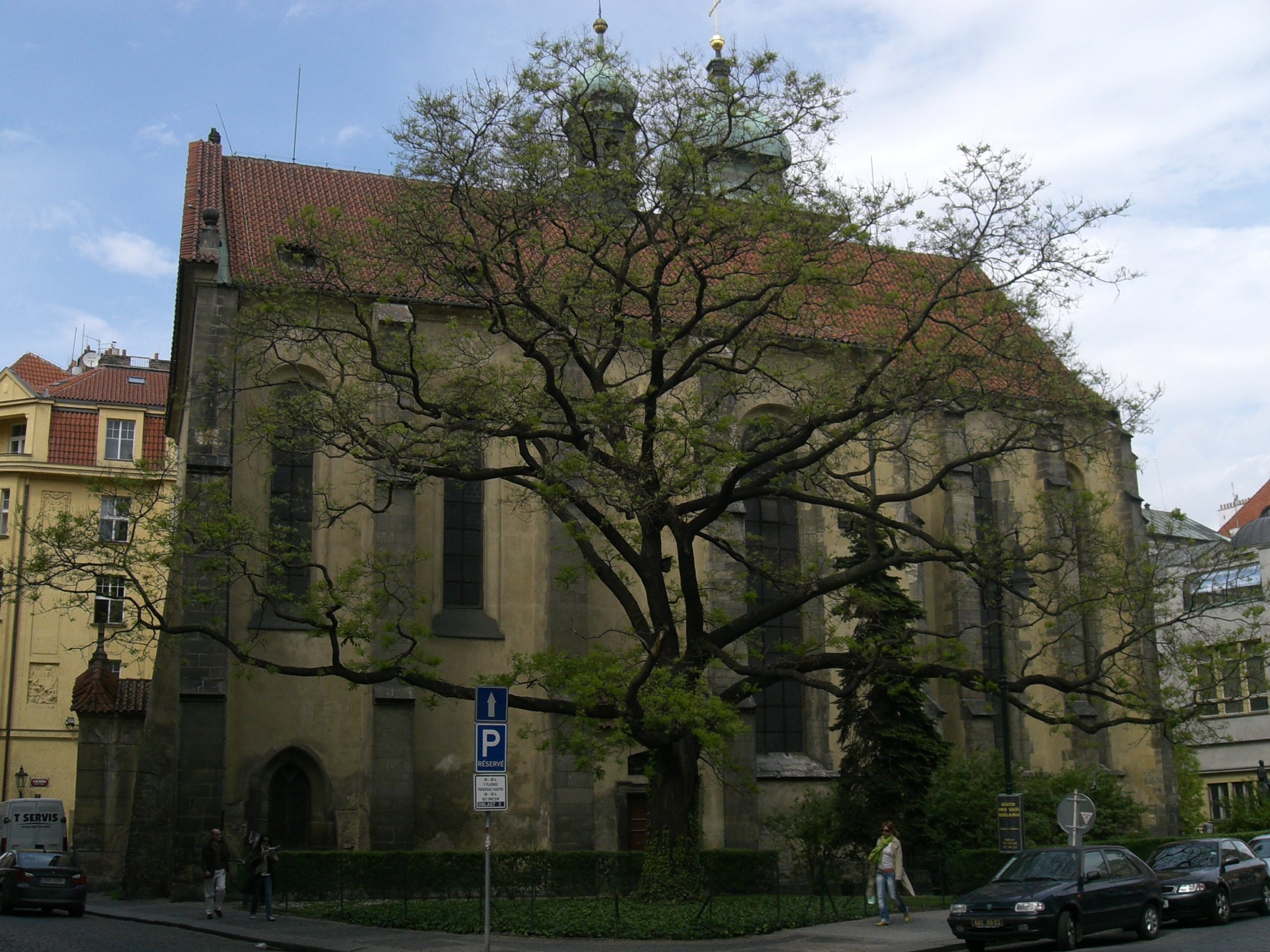 Church of Holly spirit, Prague, Czech Republic.